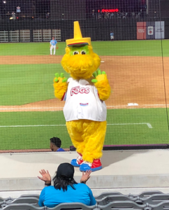 The mascot of the Chicago Dogs baseball team, Squeeze, standing at the Dogs' home field, Impact Field.